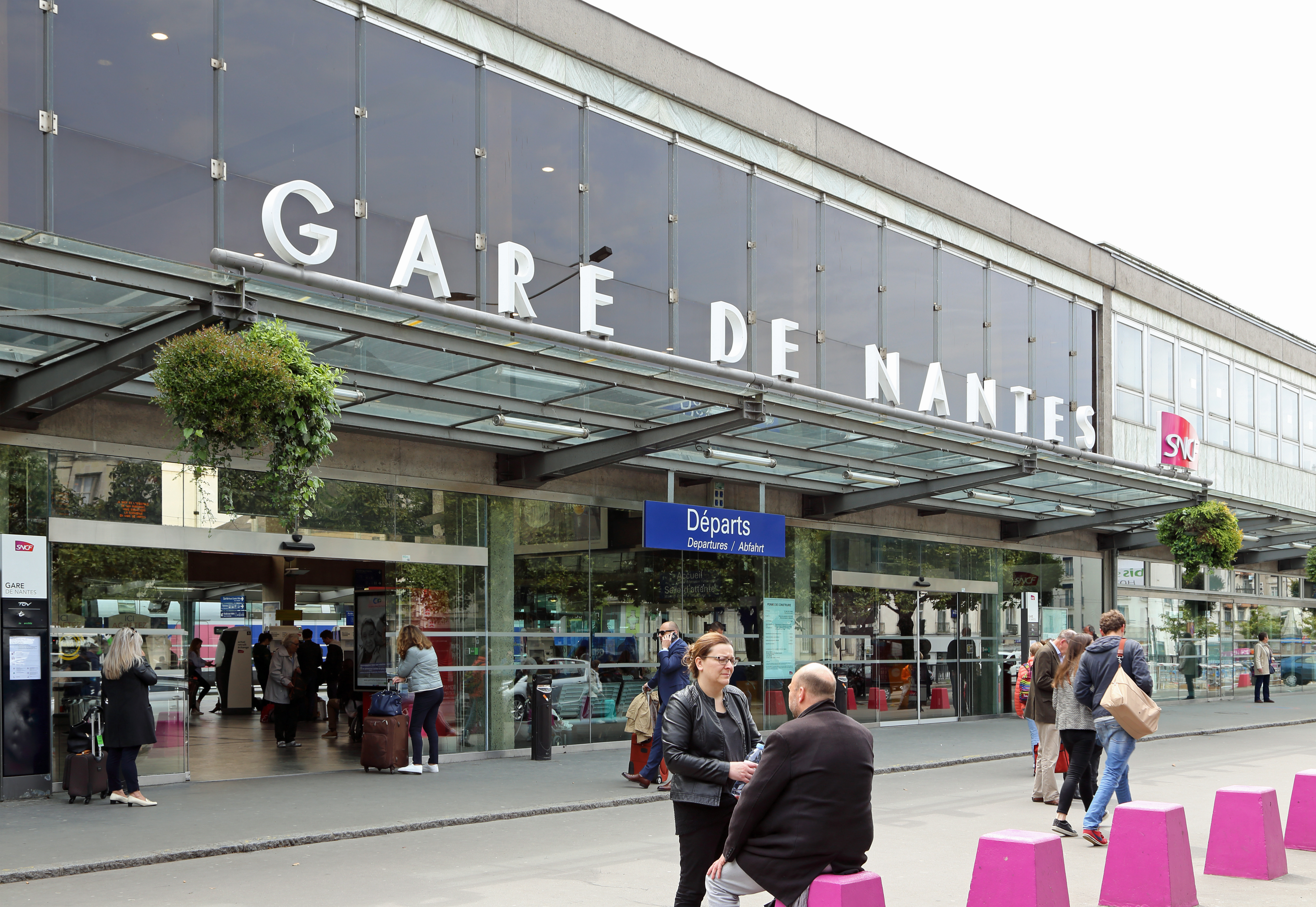 Nantes (France): train station, northern entrance